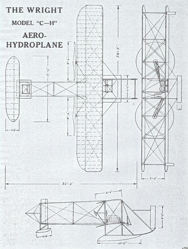 3-view drawing of the Wright Brothers' Wright Model CH (seaplane version of the Model C).